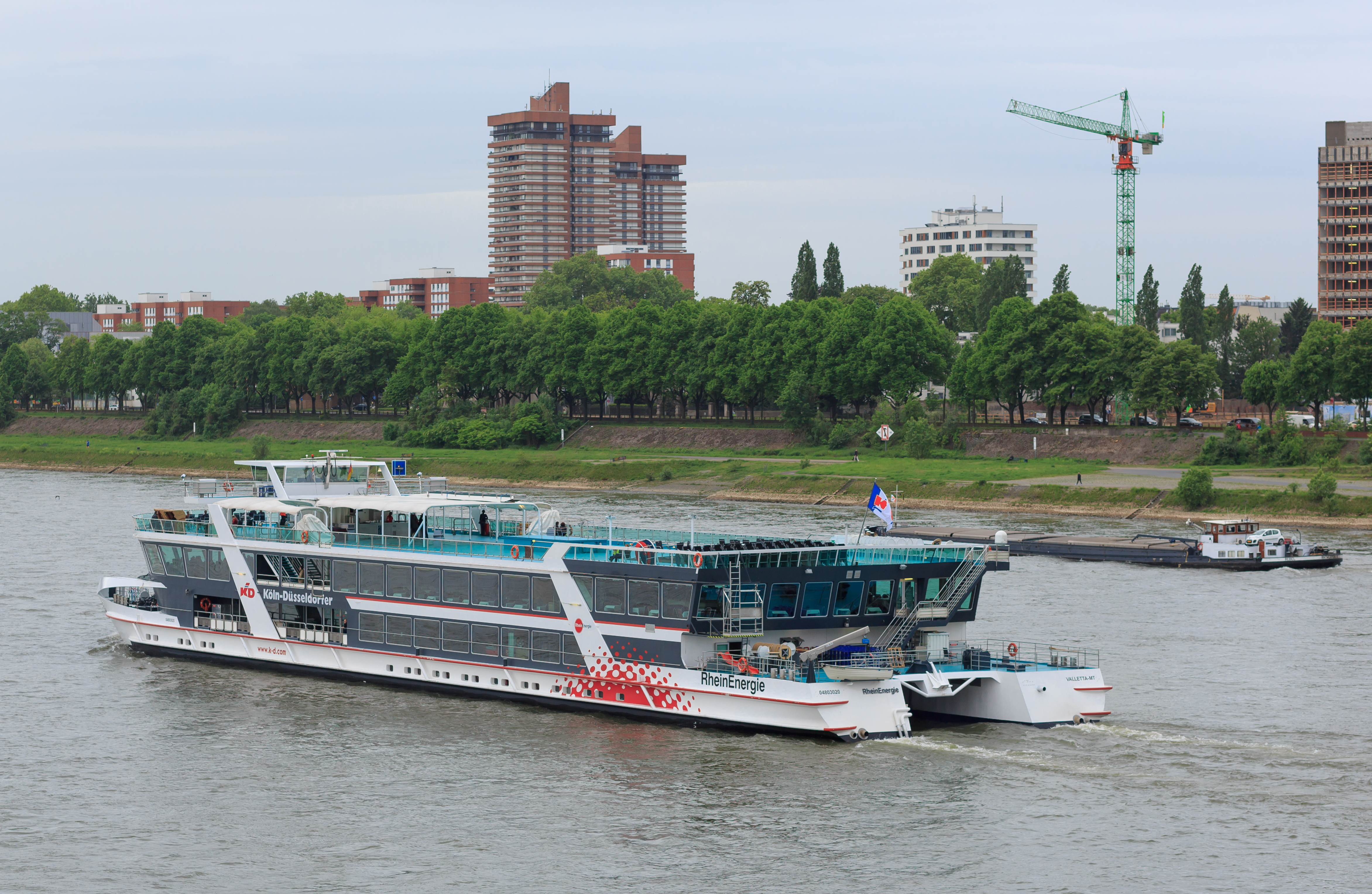 Cologne, Germany: Ship "Rheinenergie" at Cologne Southbridge (Kölner Südbrücke)